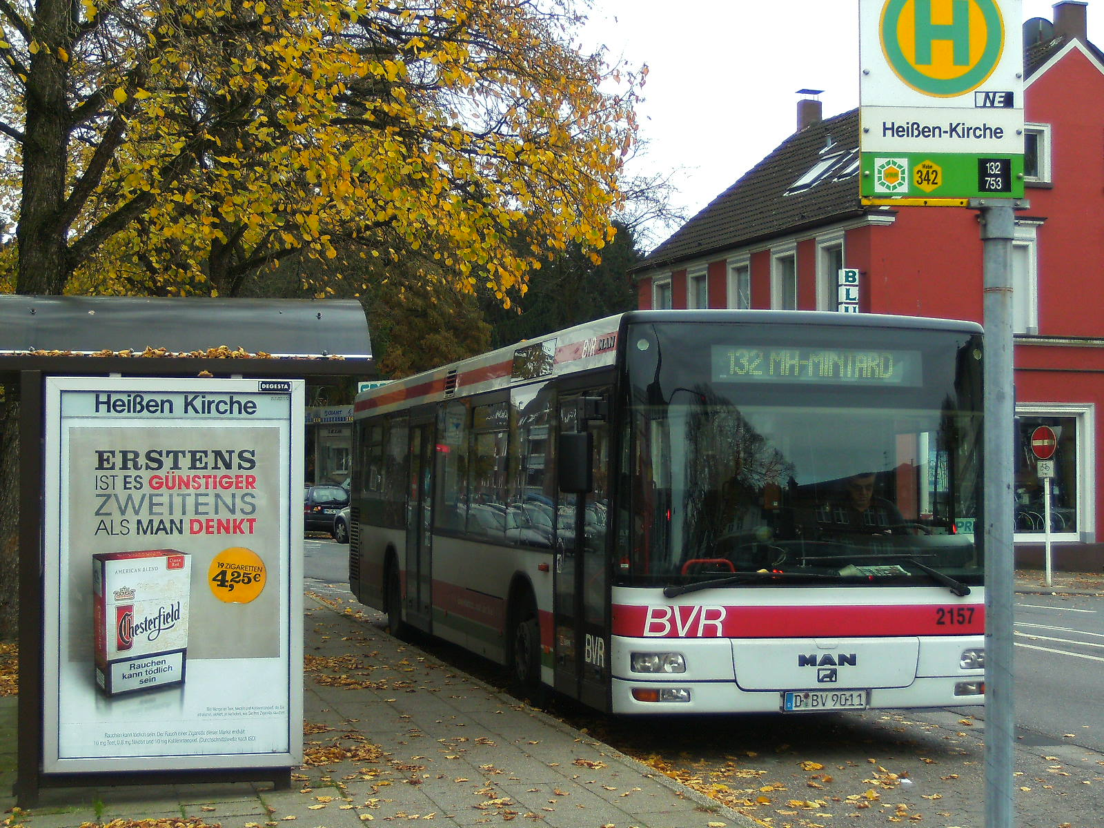 Bus line 132 standing here on bus stop "Heißen Kirche" in Mülheim on Ruhr.